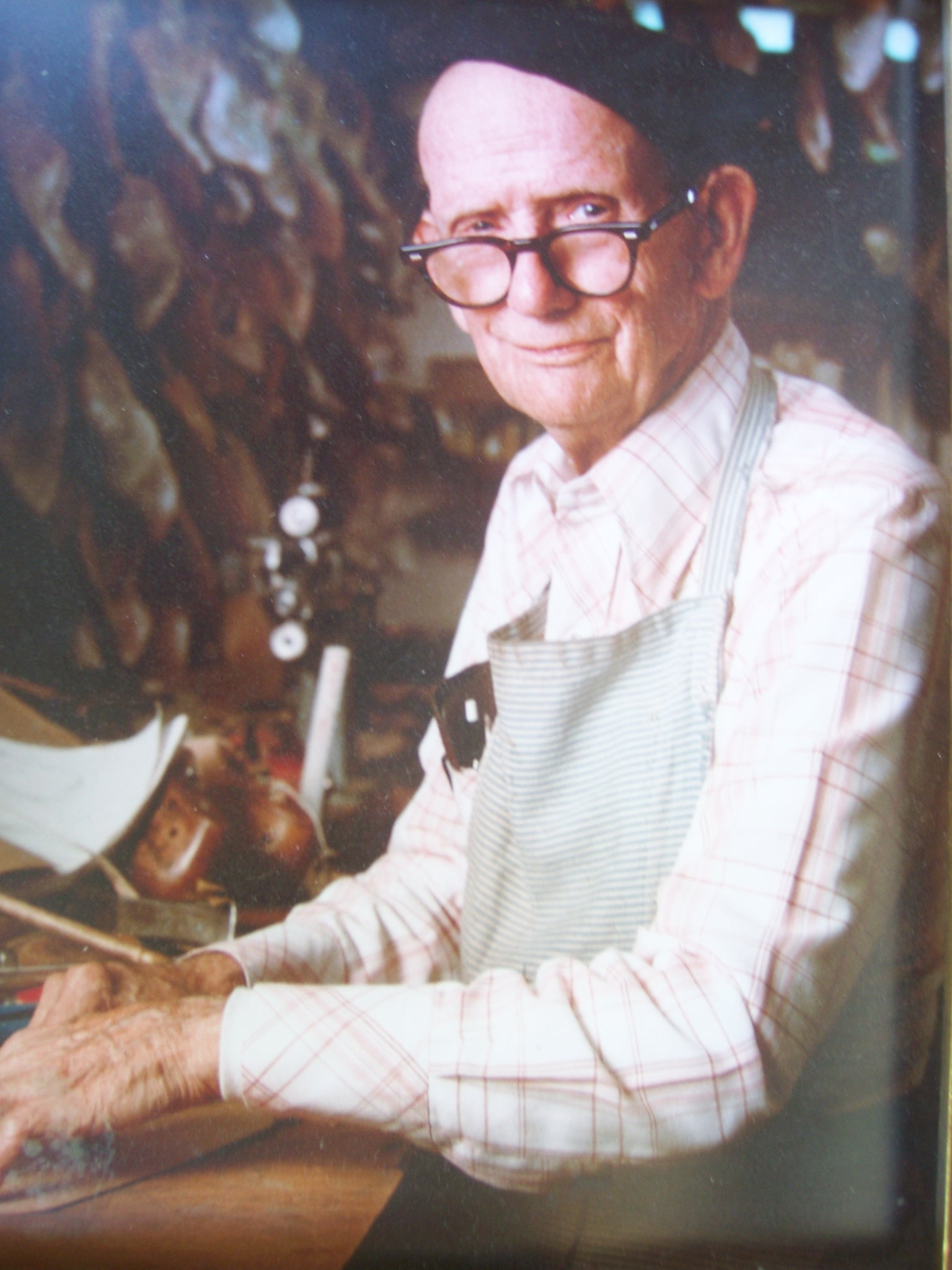 Bootmaker Charlie Dunn in the process of making cowboy boots